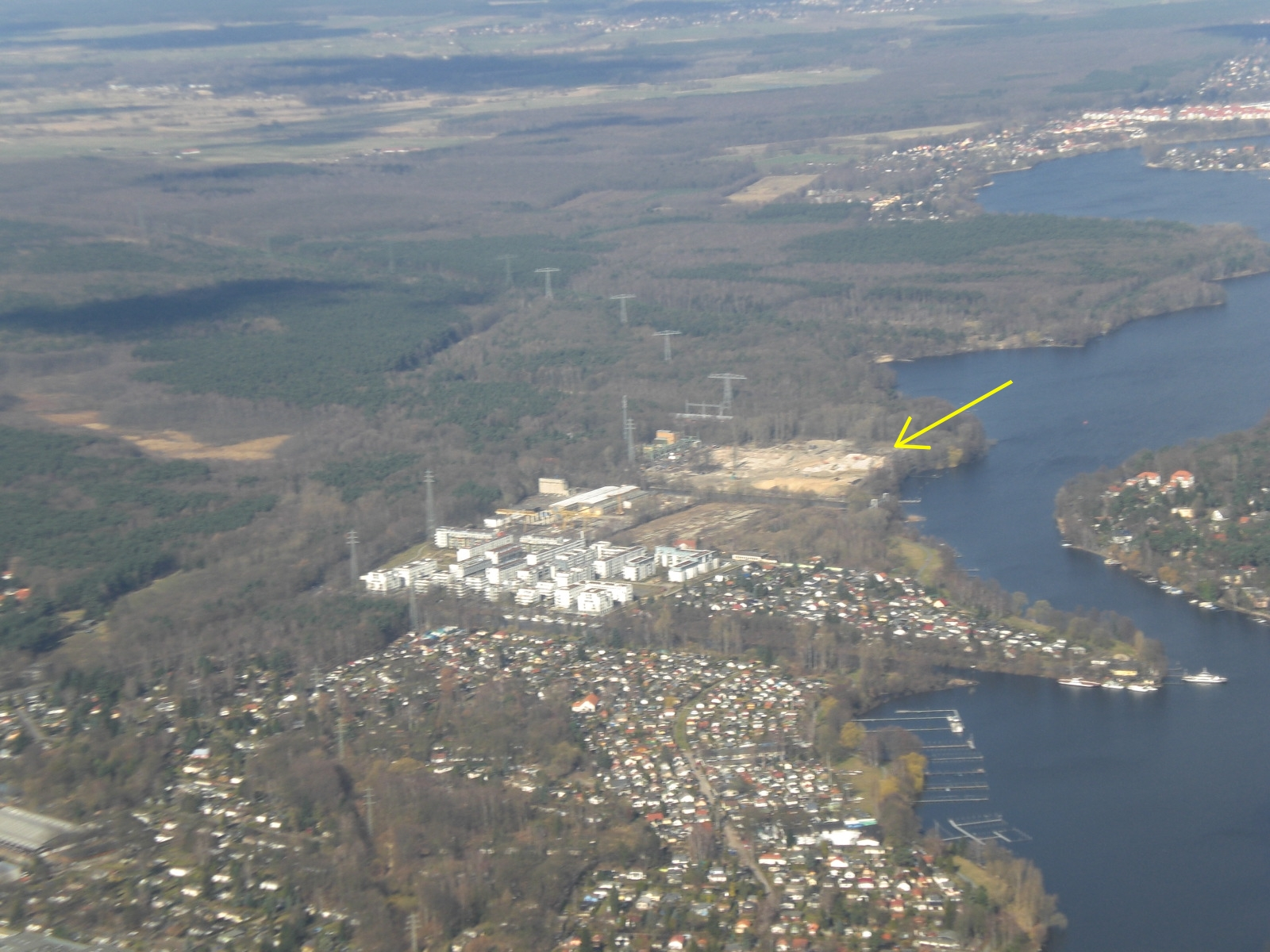 Former site of power plant Oberhavel in Hakenfelde, a part of Berlin's borough Spandau, Germany. Demolition: 2005